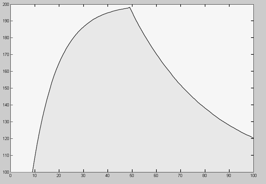 Simulation of association and dissociation SPR signal using MATLAB software.